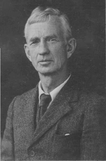 John Tudor Gwynn, journalist